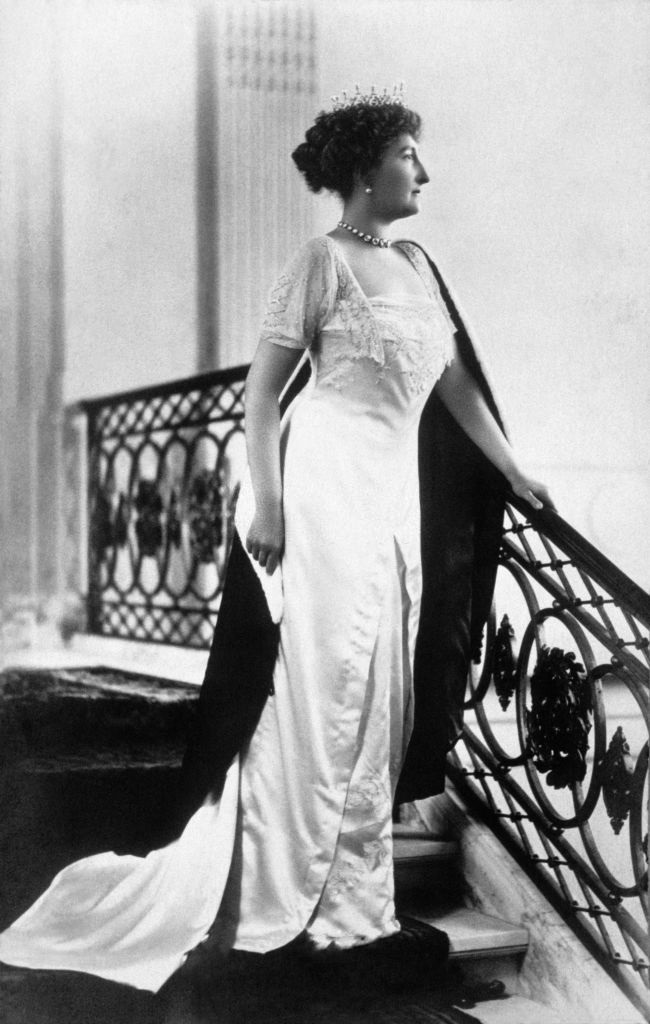 Clémentine of Belgium - Princess Napoleon